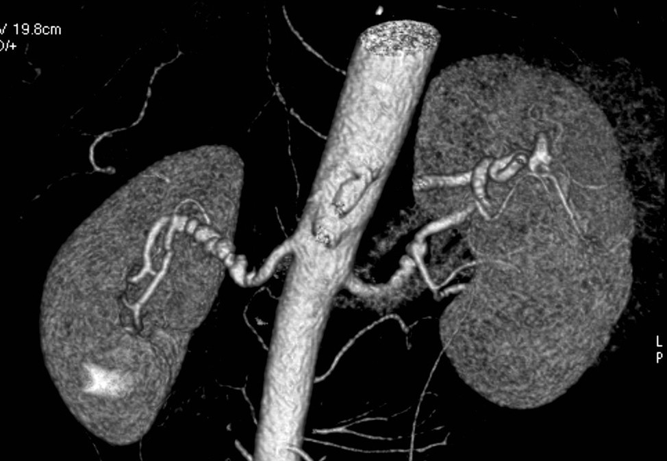 Computed tomography angiography in a patient with medial dibromuscular dysplasia.